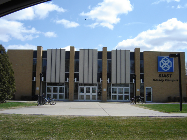 SIAST Kelsey-Woodlawn, Lawson SDA, Saskatoon, Saskatchewan, Canada